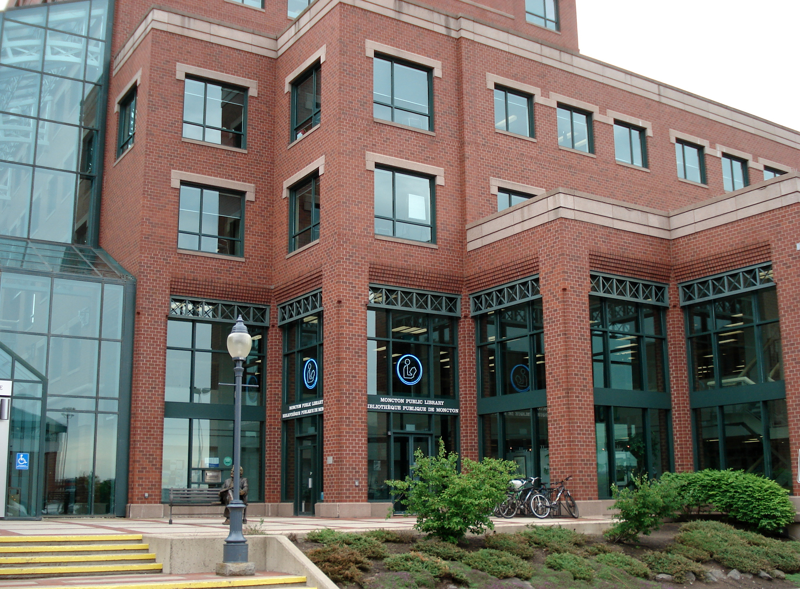 Moncton Public Library, downtown Moncton, New Brunswick, Canada